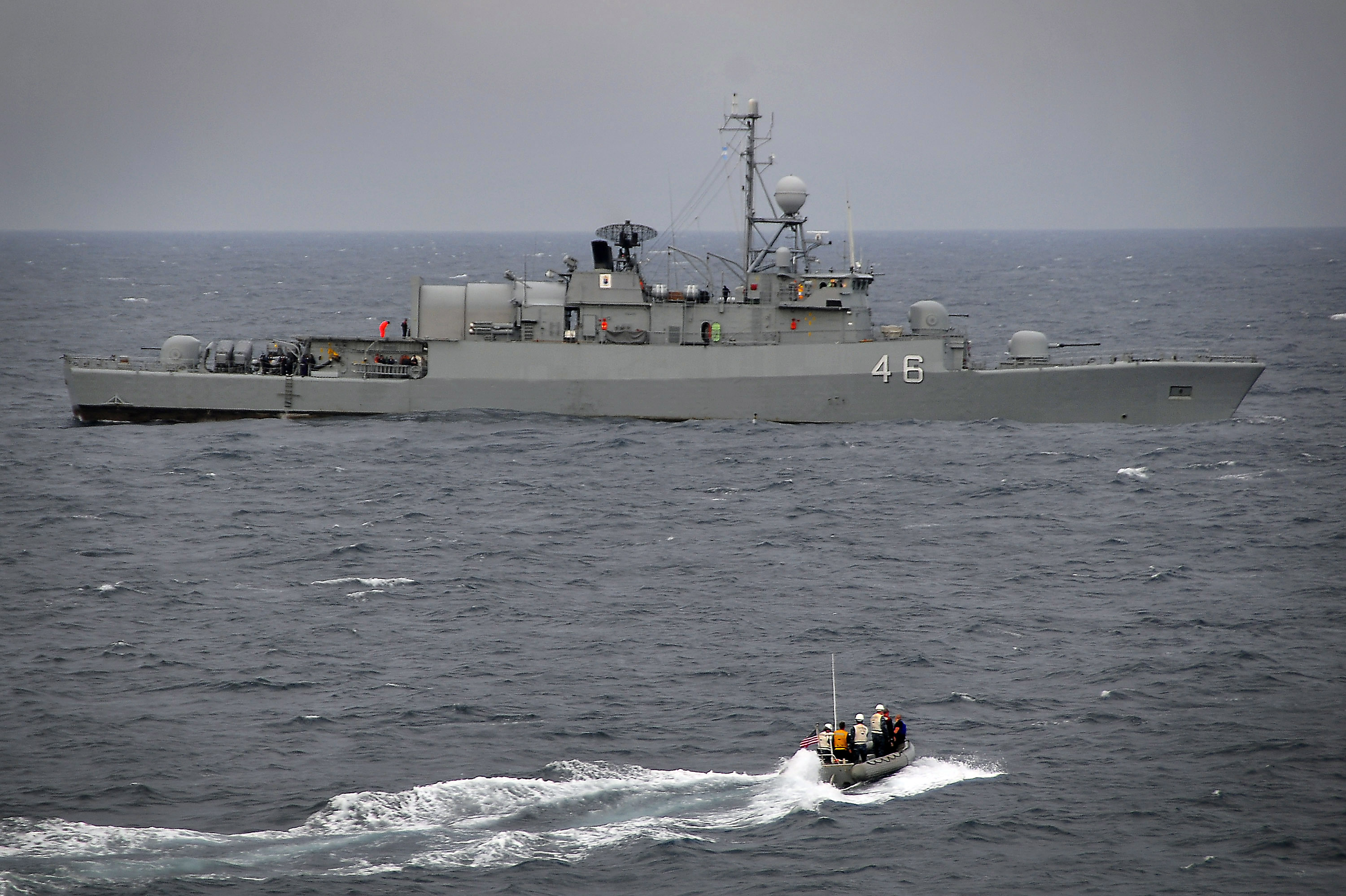 100309-N-4774B-089 ATLANTIC OCEAN (March 9, 2010) A rigid-hull inflatable boat from the guided-missile cruiser USS Bunker Hill, CG-52, approaches the Argentina Navy Espora-class frigate ARA Gomez Roca, P-46, during a passenger exchange, during naval exercise Southern Seas 2010, an operation directed by U.S. Southern Command that provides U.S. and other forces the opportunity to operate in a multi-national environment.